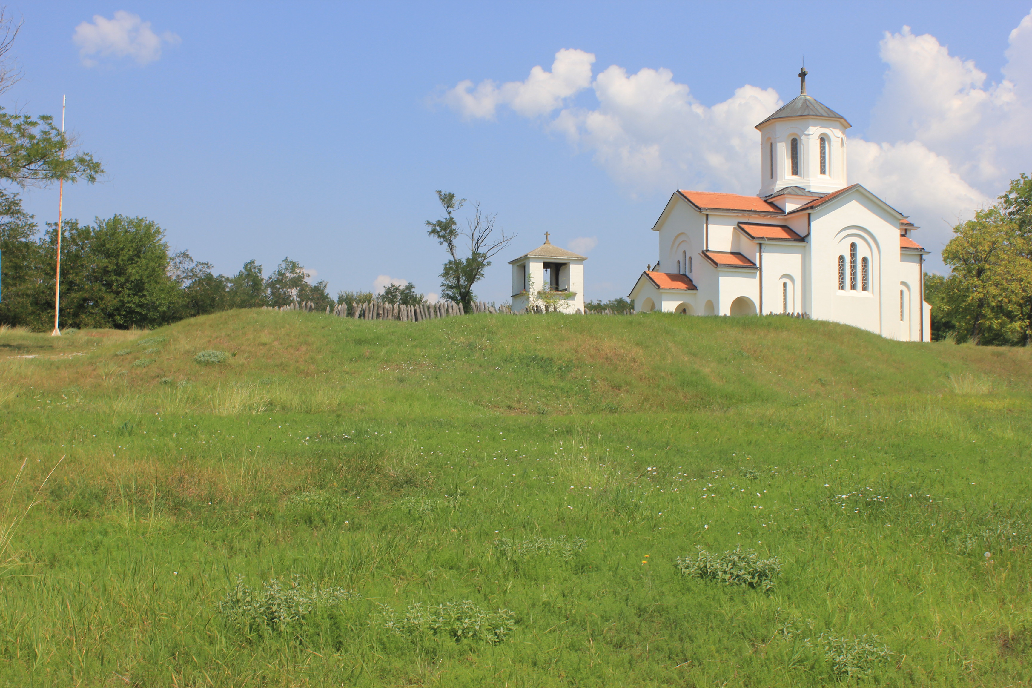 Frontal look on Deligrad fortress battlement